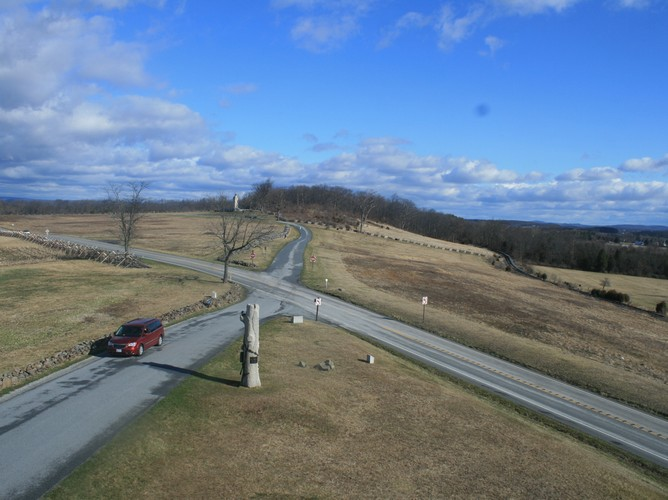 Oak Hill and Baxter brigade position